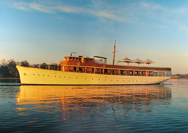 Built in 1926 originally christened as Siele by John French of Detroit, MI she served in WWII and was fitted for wartime and then known as Aquamarine. Later she was an interim U.S. Presidential Yacht from 1945 to 1946.